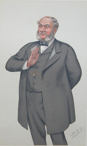 Caricature of Sampson Samuel Lloyd. Caption read "Fair Trade".